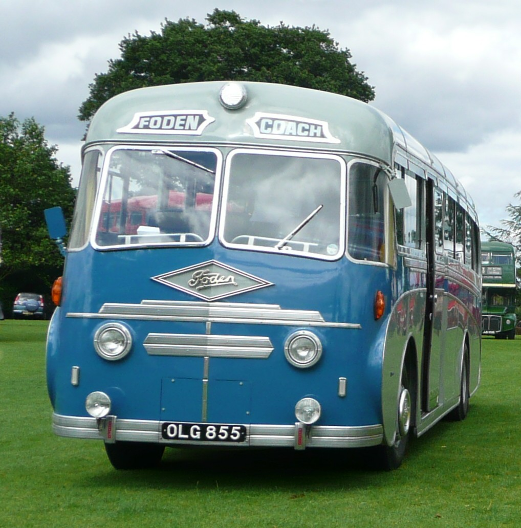 Preserved Foden OLG 855, a 1951 Venturer bodied Foden PVRF6 coach, at the 2008 Alton bus rally at Anstey Park. It was used as a demonstrator vehicle by Foden, and also served to transport the Sandbach, Cheshire based Foden Motor Works band to performances around the country - see Foden's Band.